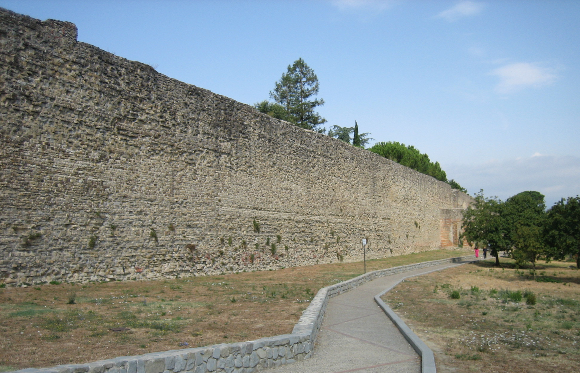 Arezzo ( Italy): City wall near the Dome of Arezzo and the escalators. Arezzo ( Italien): Stadtmauer, nahe dem Dom und den Rolltreppen (scale mobili). Arezzo ( Italien): Udsnit af Arezzos bymur mod nord.